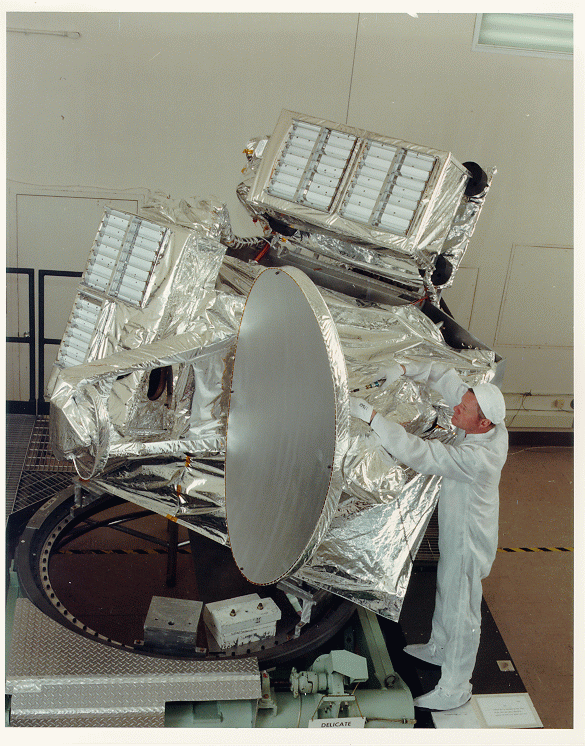 The Microwave Limb Sounder instrument that flew on the Upper Atmosphere Research Satellite, prior to installation aboard the spacecraft.